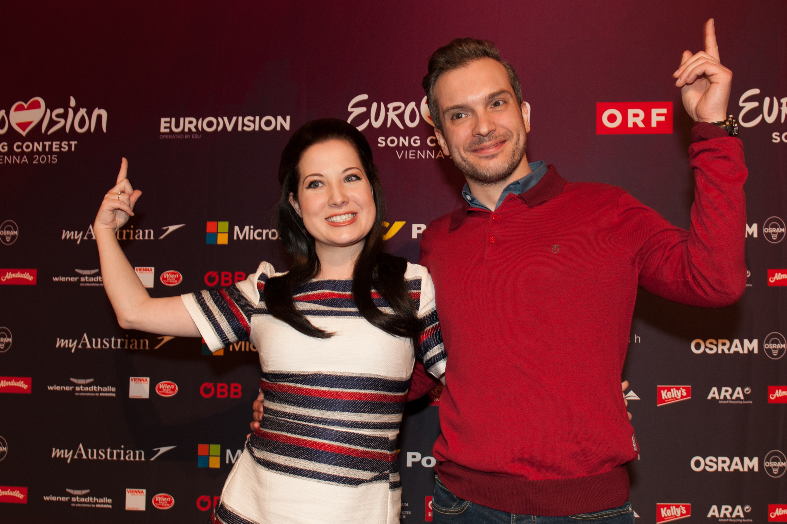 Eurovision Song Contest Vienna 2015: Electric Velvet